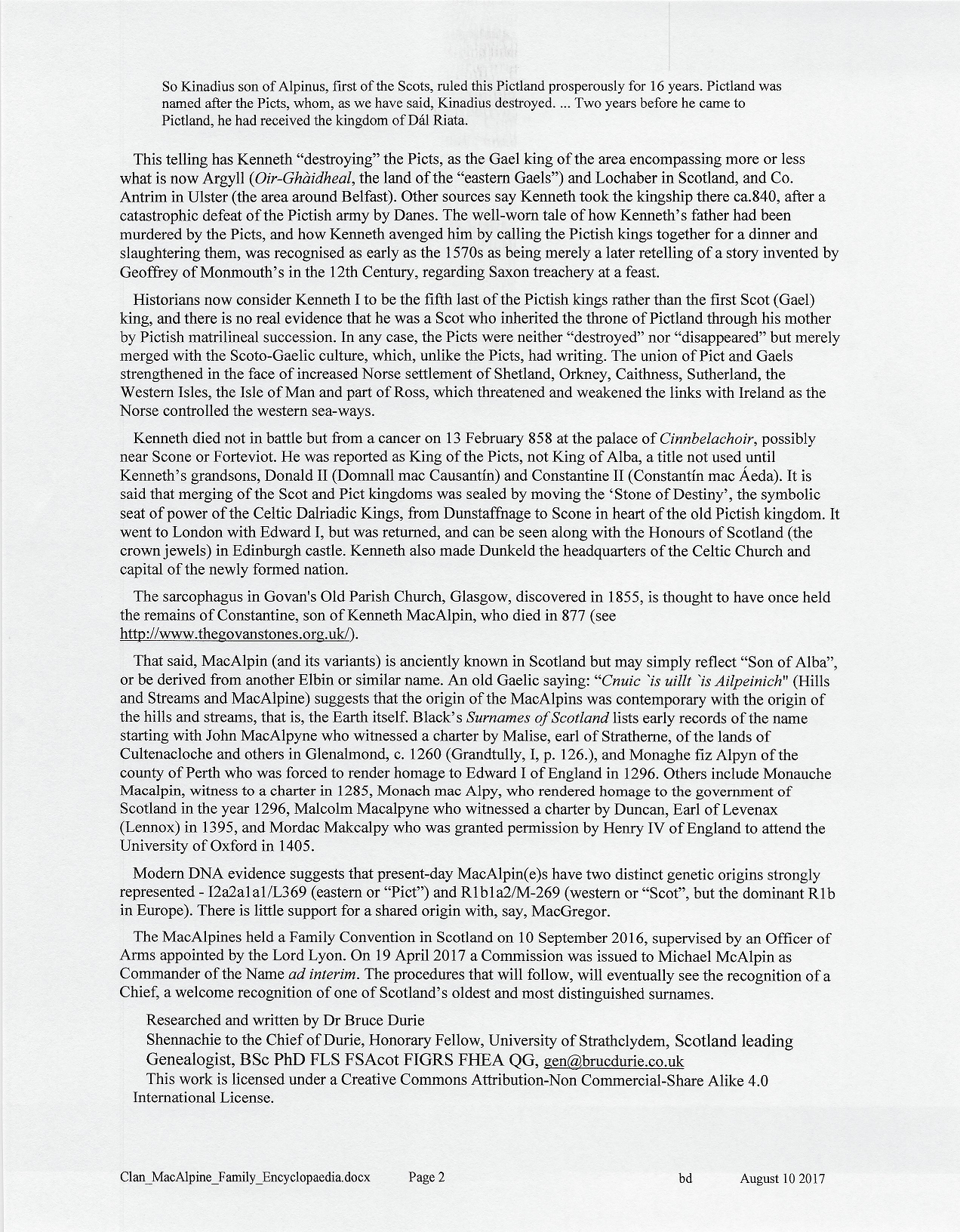 Clan MacAlpin(e) Encyclopaedia Page 1